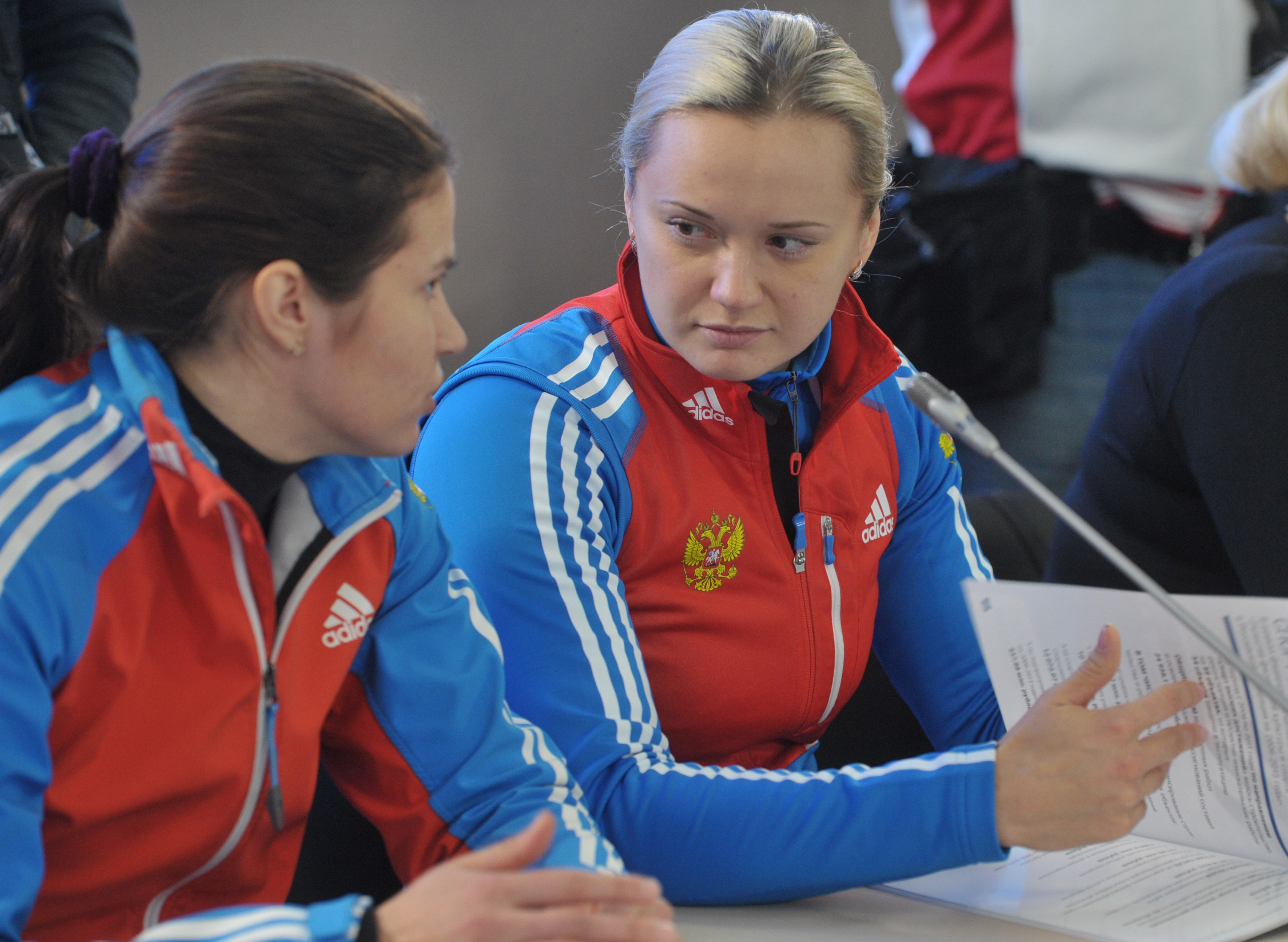 Members of the Russian national luge team Tatyana Ivanova and Aleksandra Rodionova at a video conference on the development of Russian national teams' training centers, at the Paramonovo bobsleigh and luge complex, Moscow Oblast.